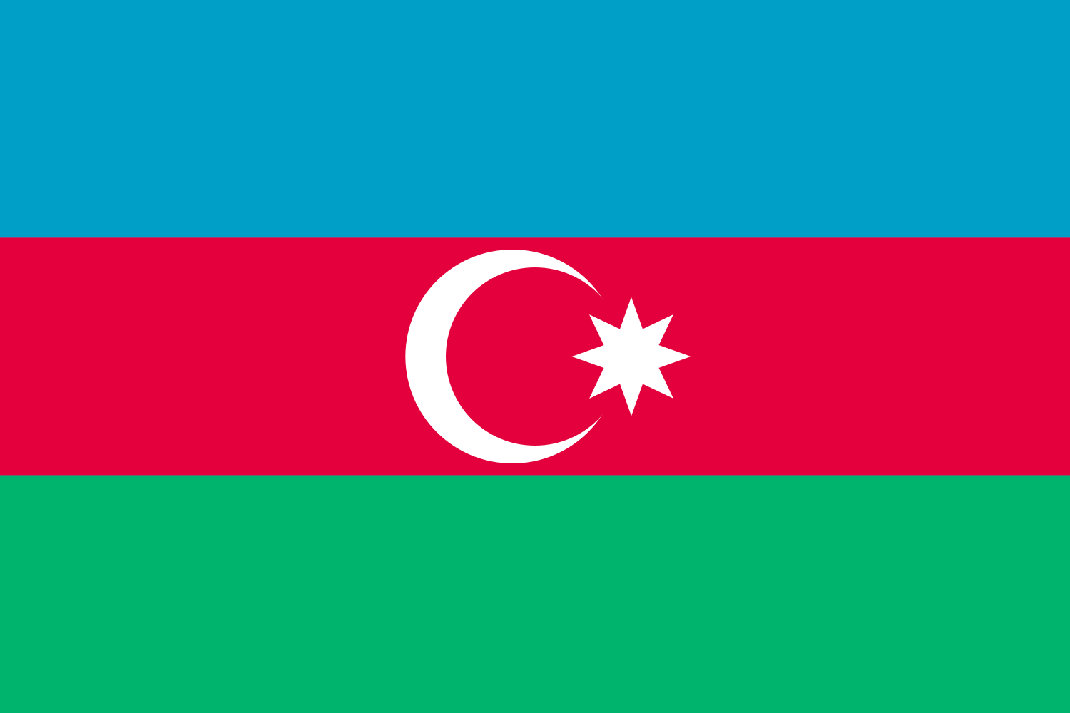 Variant of 1918 Flag of Azerbaijian